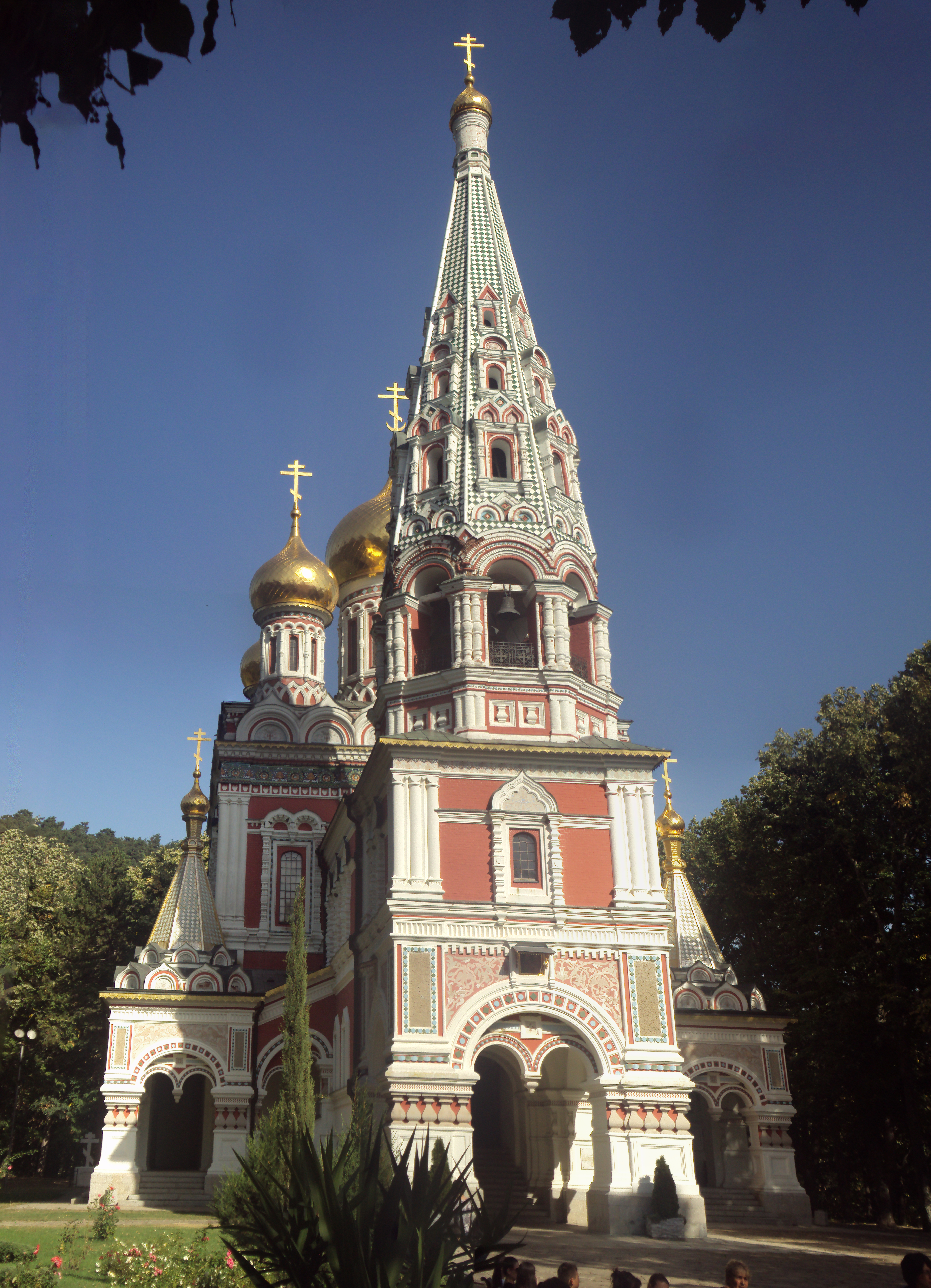 The Shipka Monument